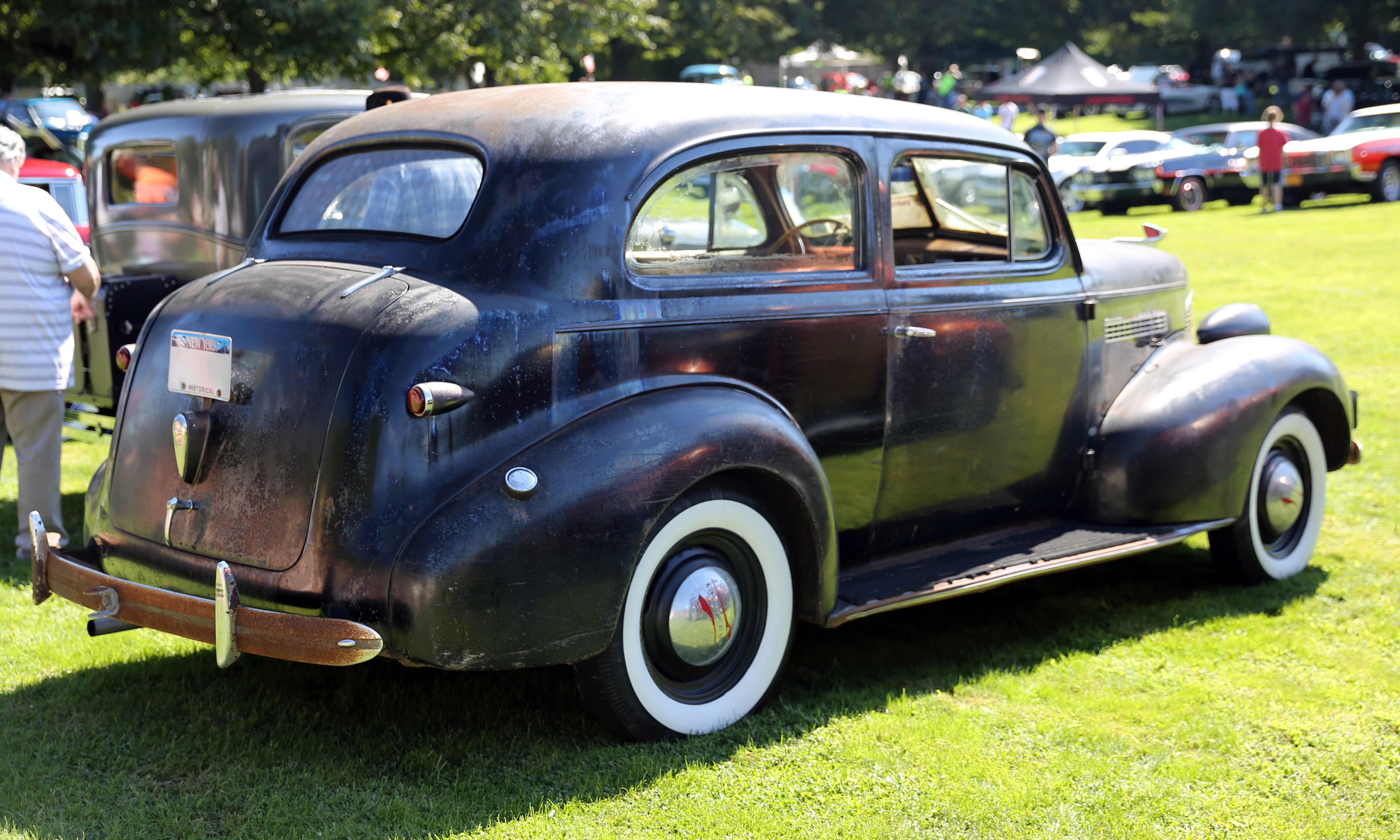 Rear view of a 1939 Chevrolet Master Deluxe Town Sedan (model code 391011) at a show in Water Mill, NY. A well worn example, but must have been registered for a while as the Empire style plates were (gradually) replaced in 2010. 2342779 serial number.